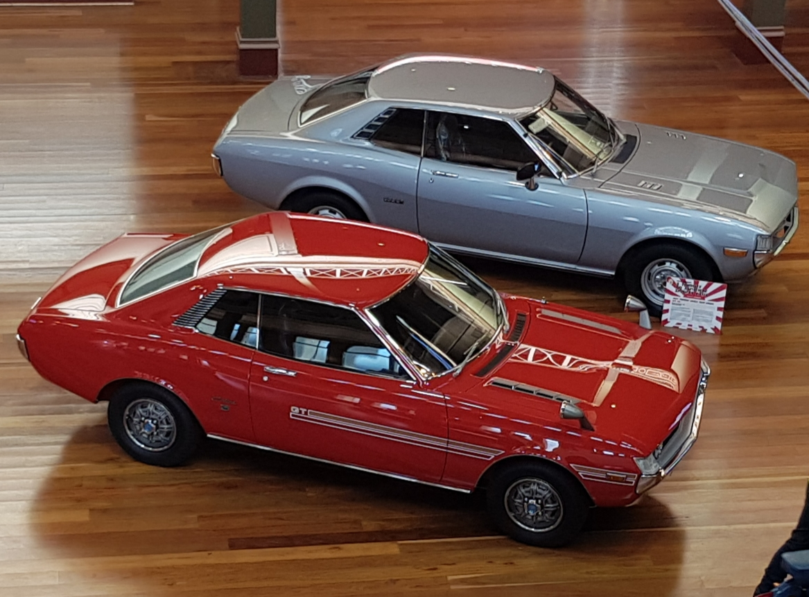 This 1971 GT was a Motorclassica finalist in the 'Restoration of the Year' and winner of the 'People's Choice ' and HAYAI KURAMA - A Tribute to Japanese Sports Cars awards. This stunning 1971 GT Celica was imported by AMI Managing Director Ken Hougham who founded Toyota Passenger Vehicles in Australia.